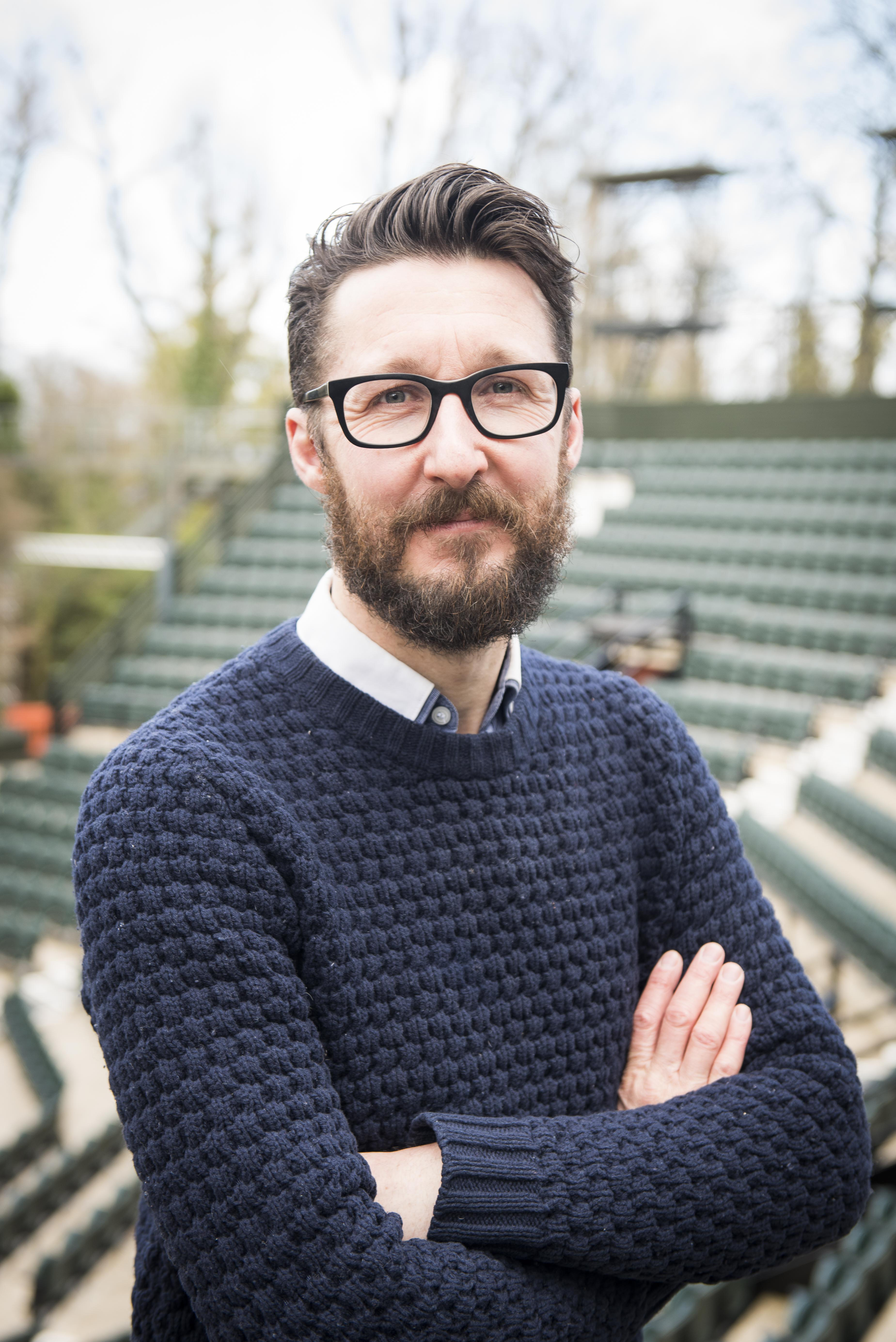 Timothy Sheader, Artistic Director of the Regent's Park Open Air Theatre